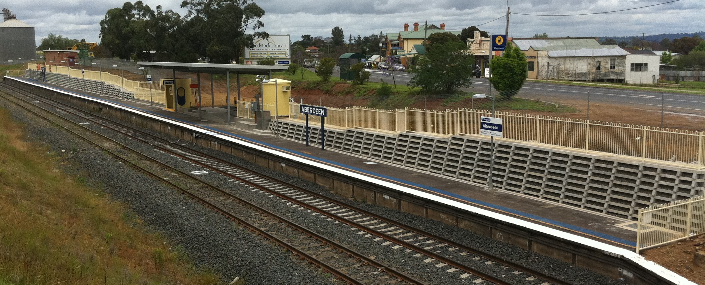 Aberdeen railway station, New South Wales, Australia